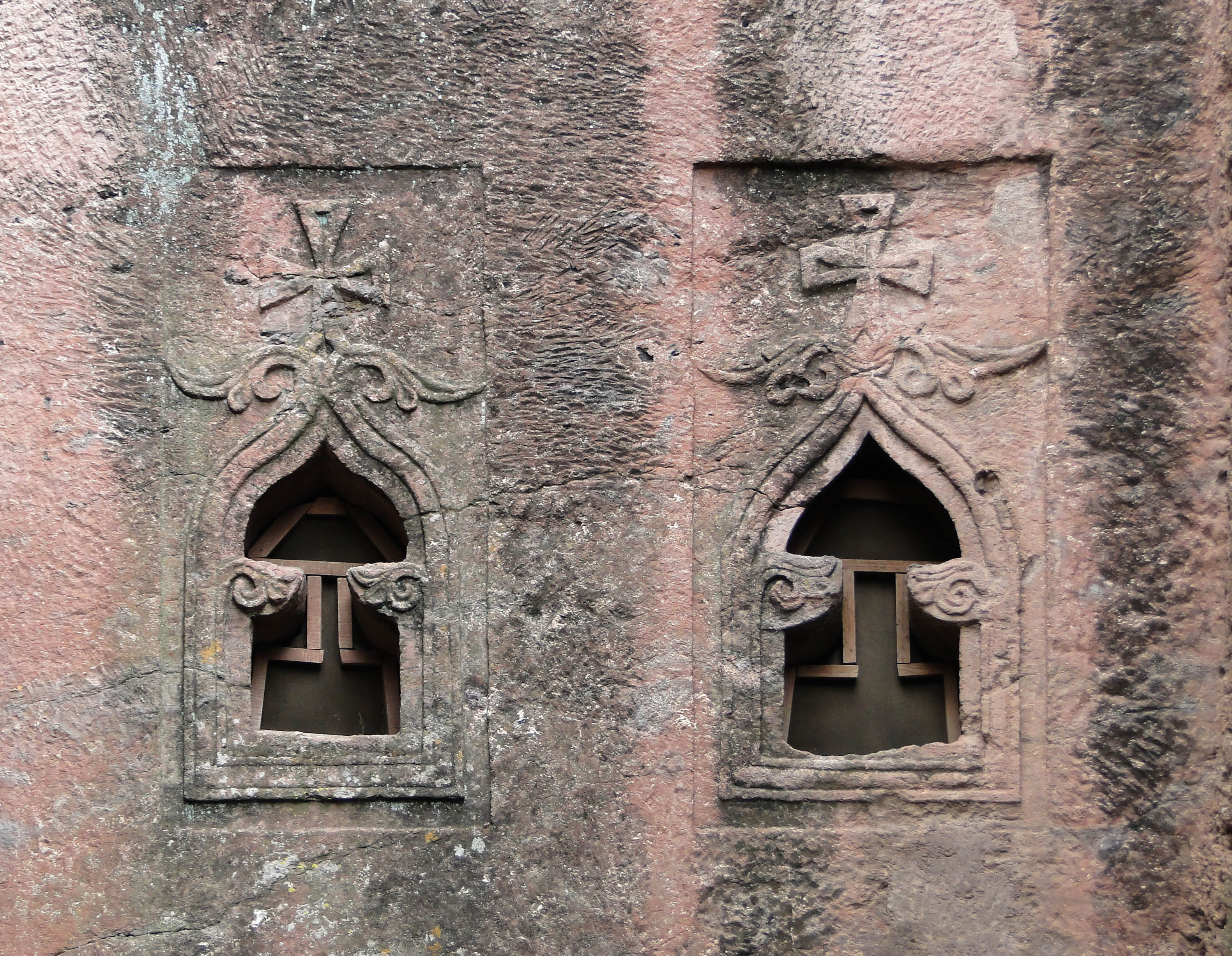 Windows of Bete Gologota-Selassié, Lalibela, Ethiopia